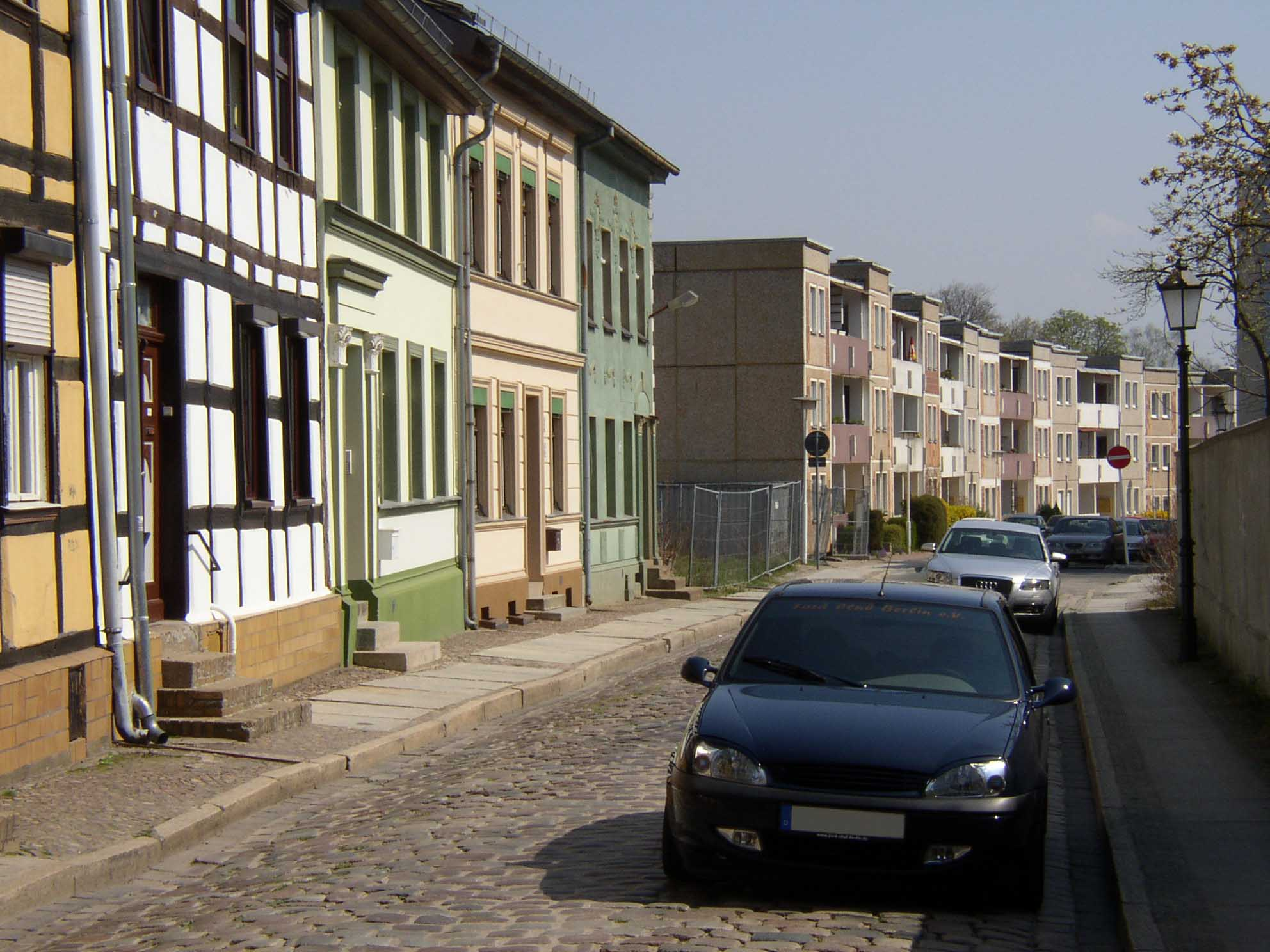 Street Hohe Steinstraße in Bernau. In the foreground you can see old buildings with timber framed construction and in the background there are so called Plattenbauten (buildings constructed of prefabricated concrete slabs). Photo taken by Benutzer:Lewa in spring 2005.